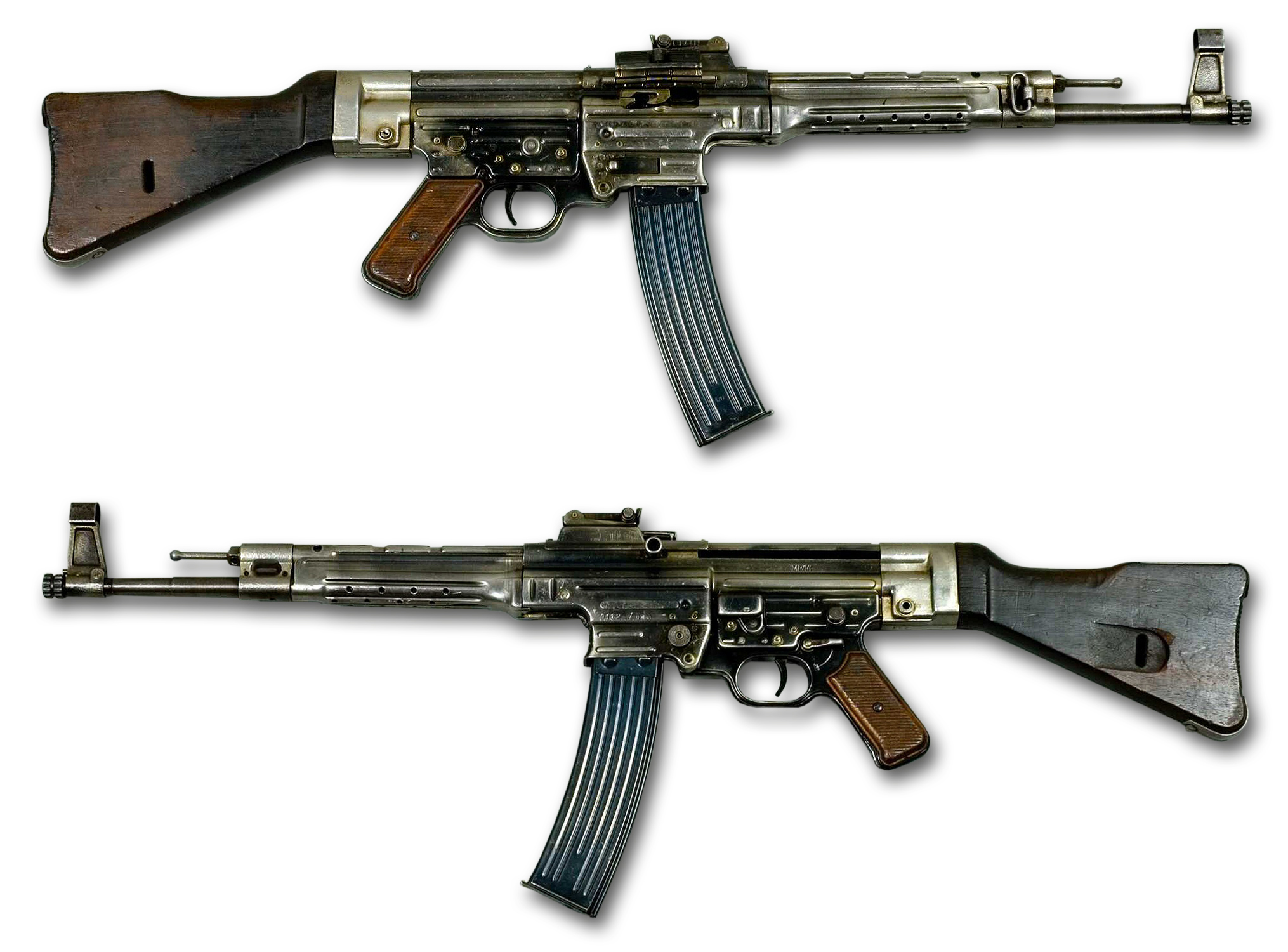 German MP44 (Sturmgewehr 44), Germany. Caliber 8x33mm Kurz- From the collections of Armémuseum (Swedish Army Museum), Stockholm.